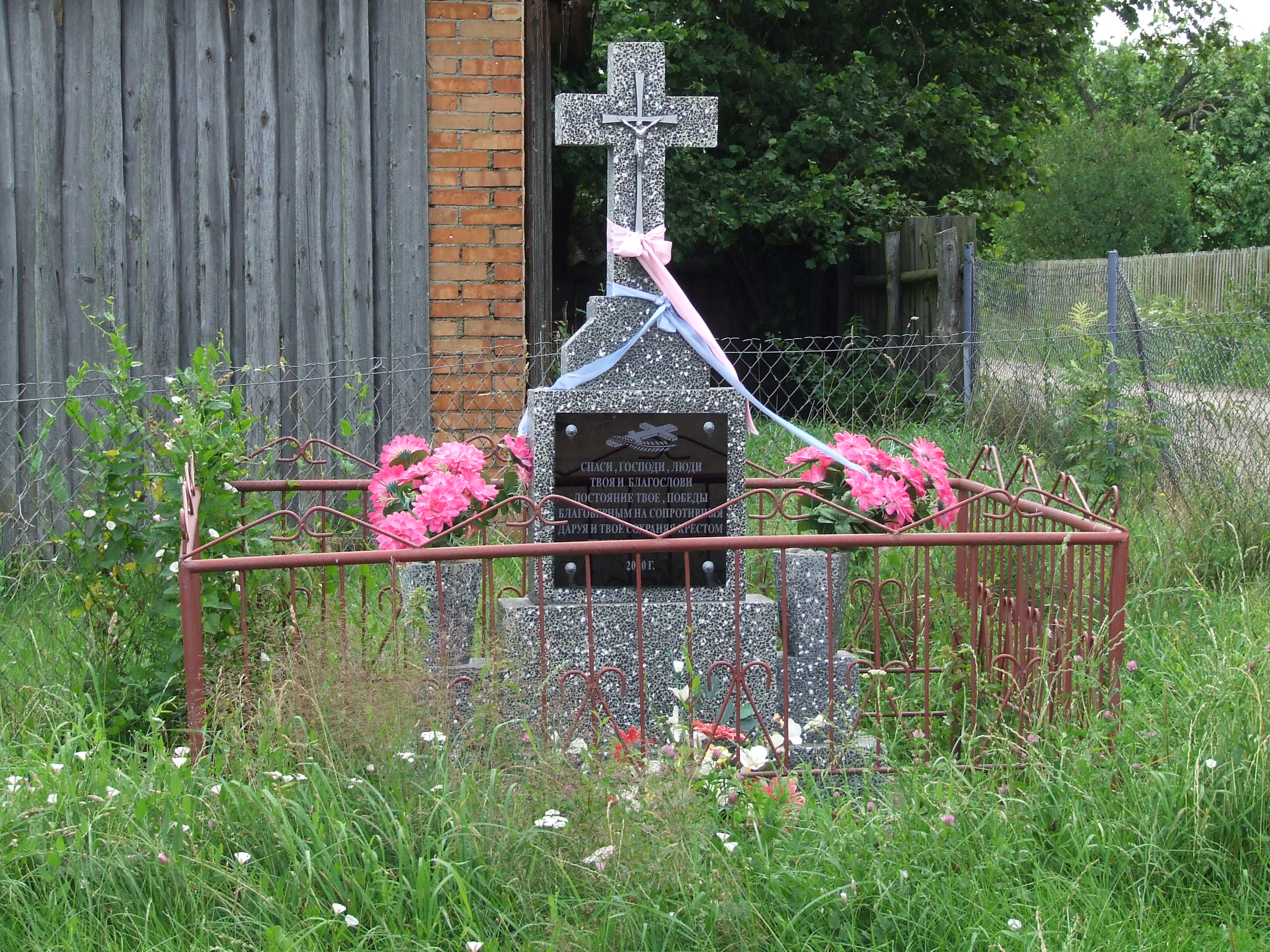 This photo from Podlaskie Voievodeship was taken during Polish Wikiexpedition 2009 set up by Wikimedia Polska Association. The making of this document was supported by Wikimedia Polska. A cross in Pasieczniki Dolne